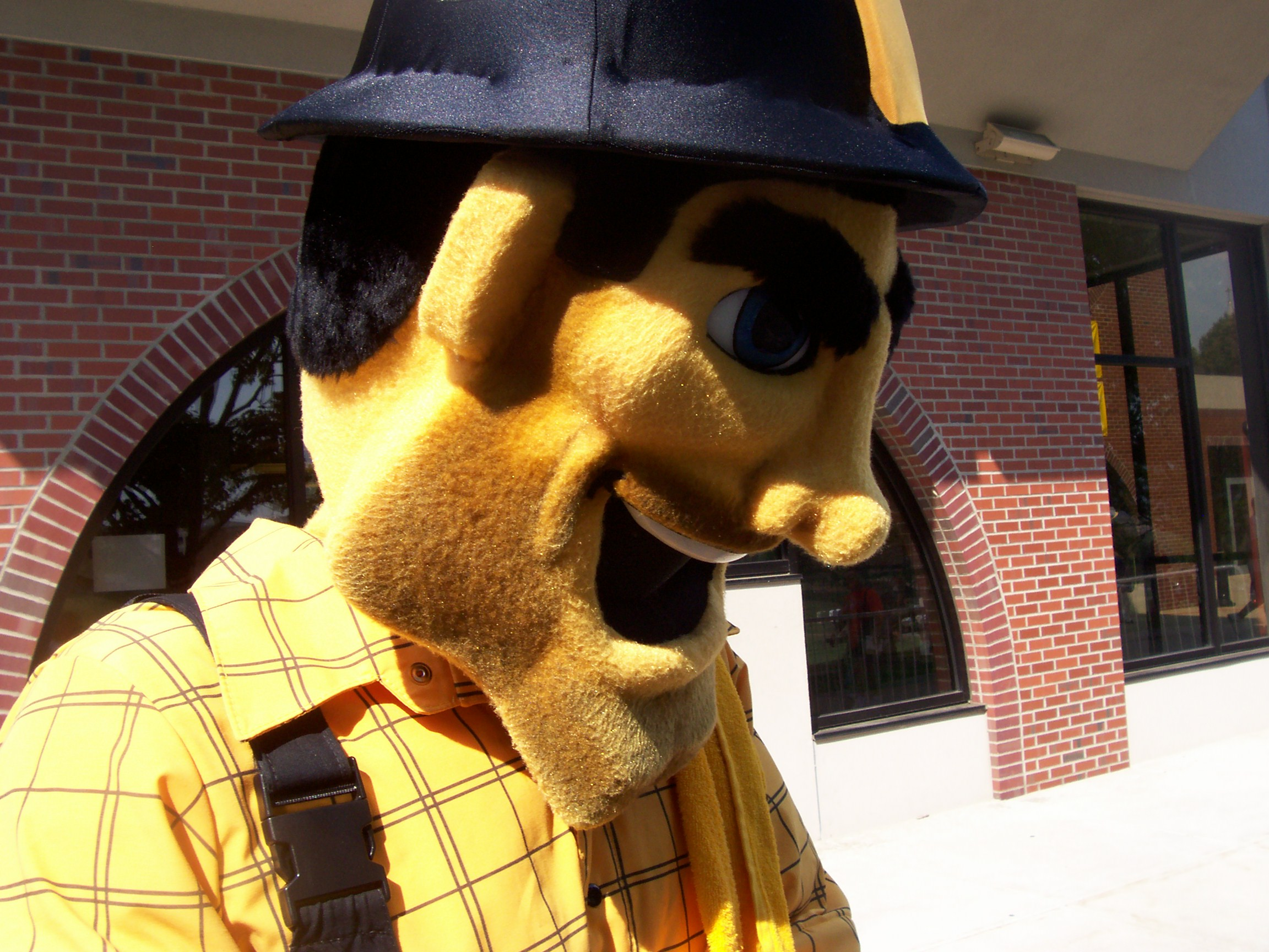 Steely McBeam signing autographs for fans at Steelers training camp at Saint Vincent College in Latrobe, Pennsylvania on August 2nd, 2007, just before his name was unveiled. Up to that point, he signed his autographs as "Mascot 07". Took image myself.